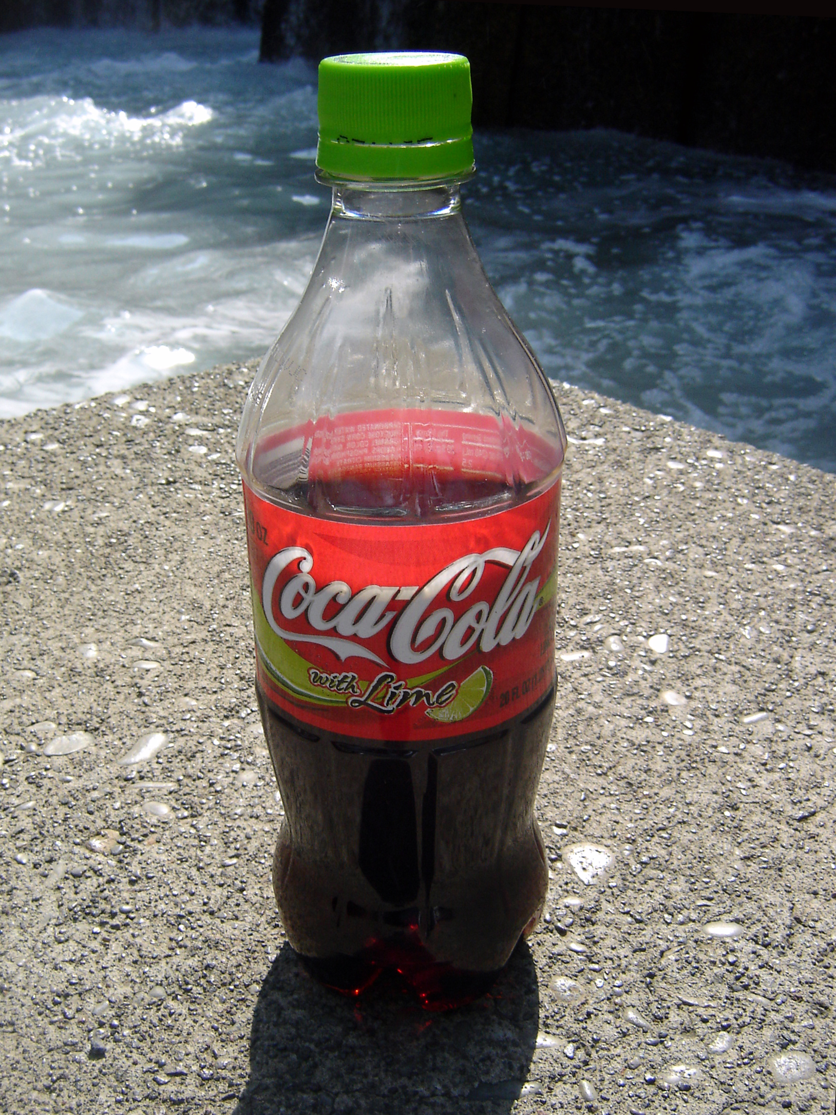 At the Ira Keller fountain, Portland